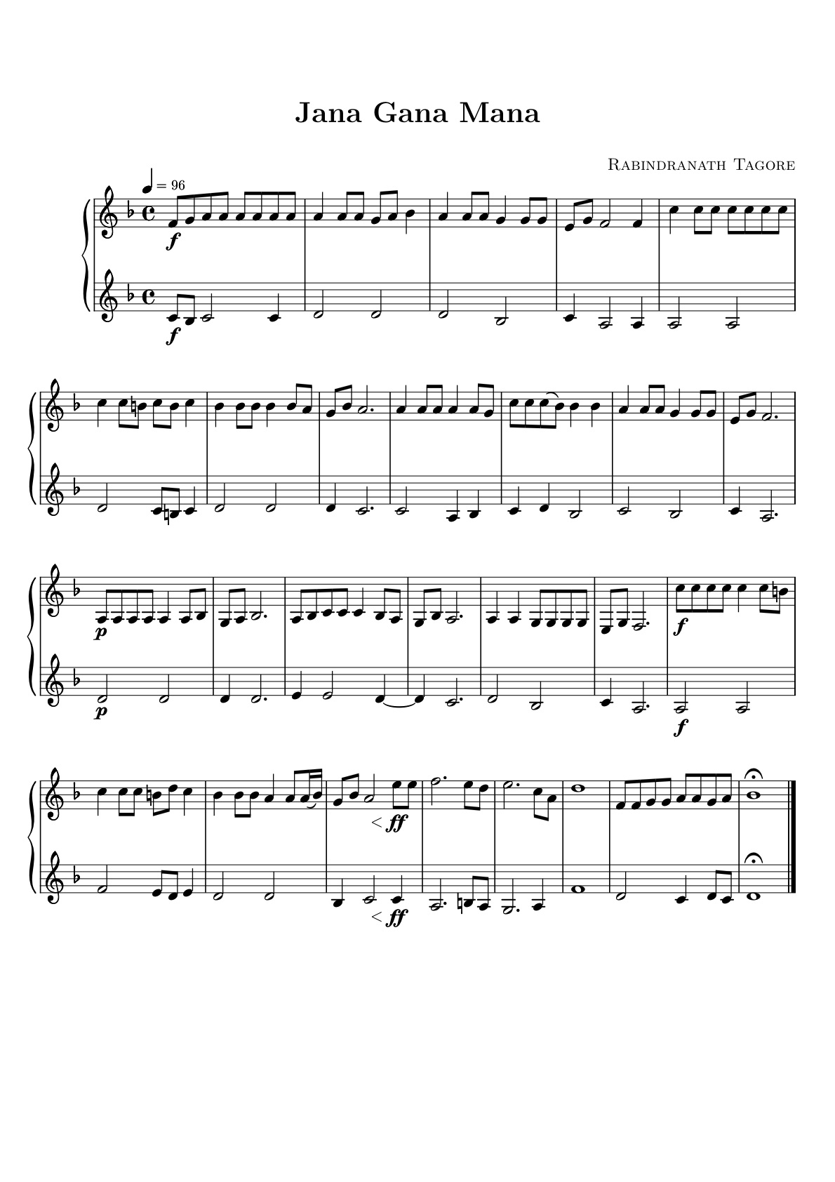 Sheet music of Jana Gana Mana, the national anthem of the Republic of India.